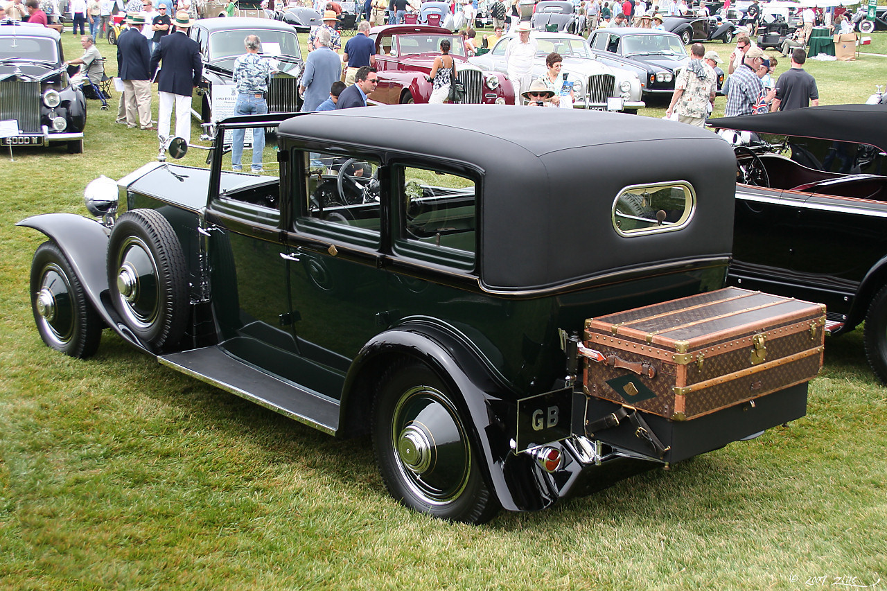 This photo was taken on May 22, 2010 in Portuguese Bend, Rancho Palos Verdes, CA, US. It shows 1927 Rolls Royce Phantom I Hooper Sedanca de Ville, Chassis # 80NC. This car once belonged to Fred Astaire.